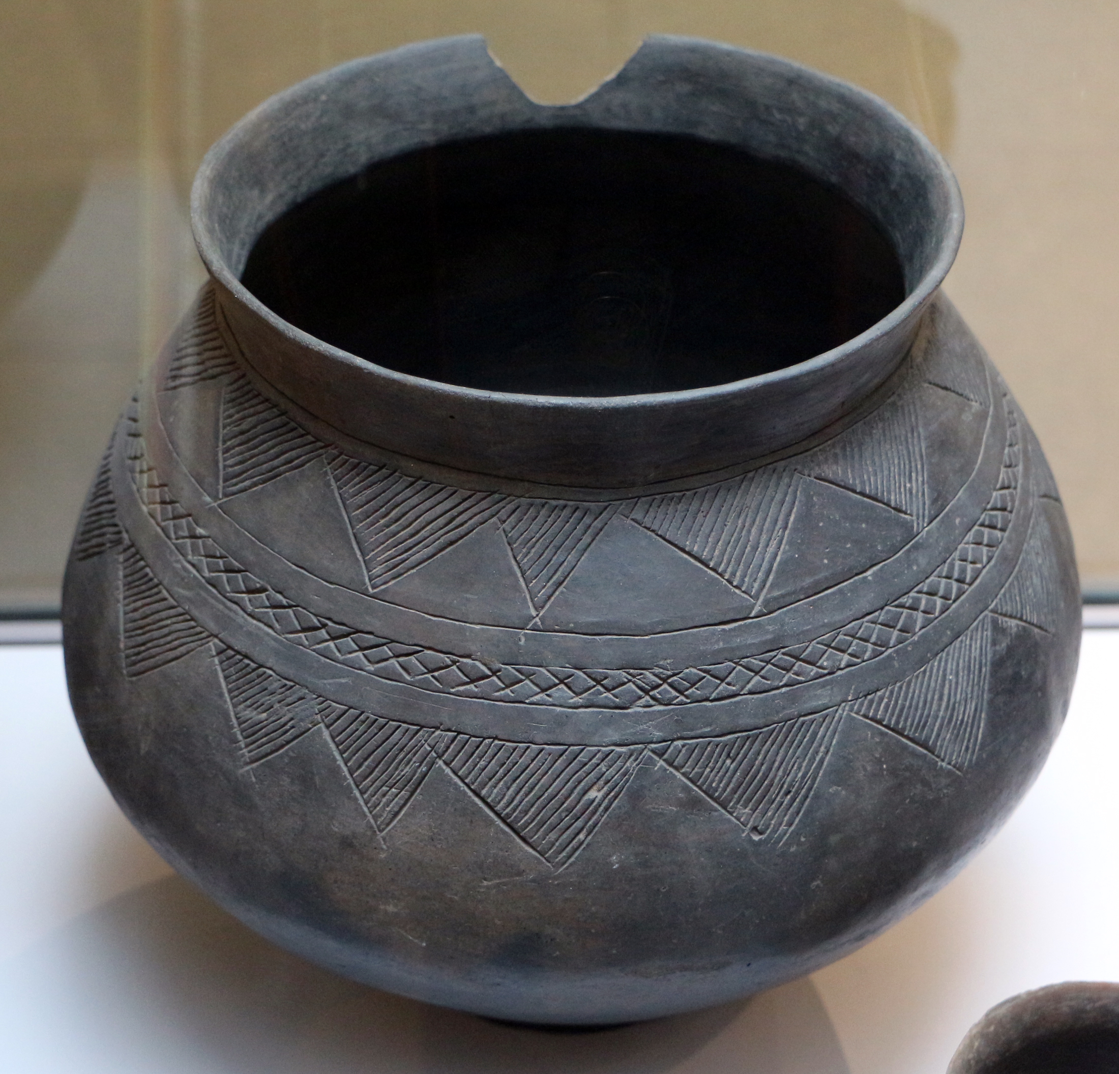 Museo della preistoria (Milan)